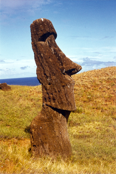 mage taken during journey of Dr. fil. Paul T.C. Kempeneers on Easter Island in 1978